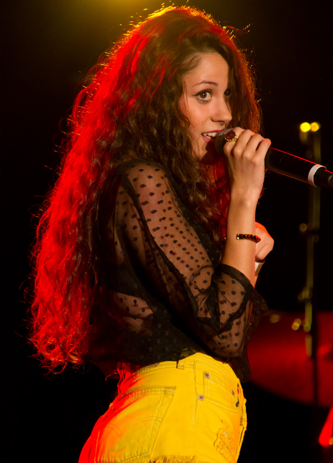 Eliza Doolittle Performs at SkyFest